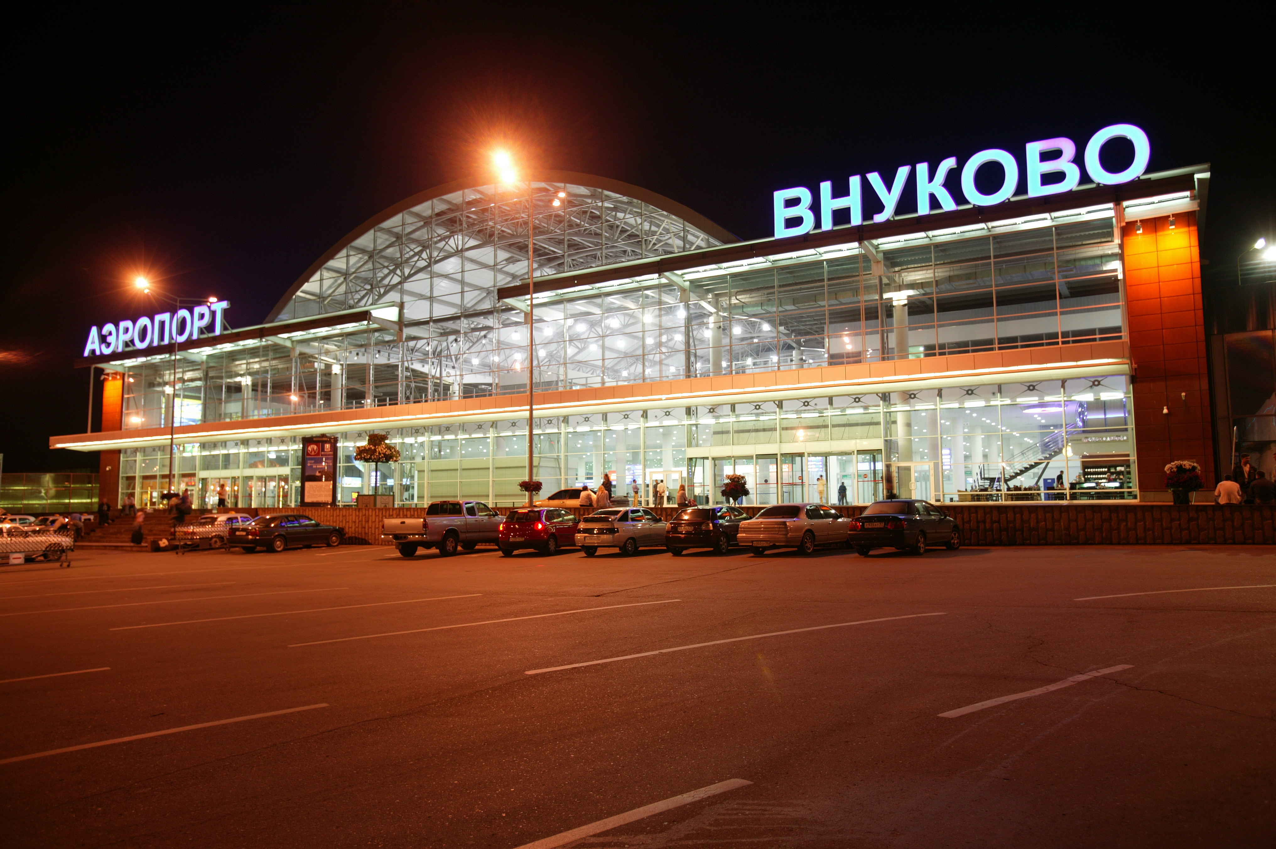 VKO INTL